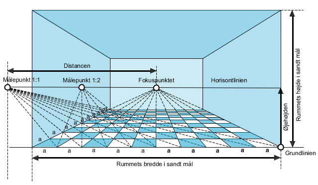 Illustration concerning perspective construction